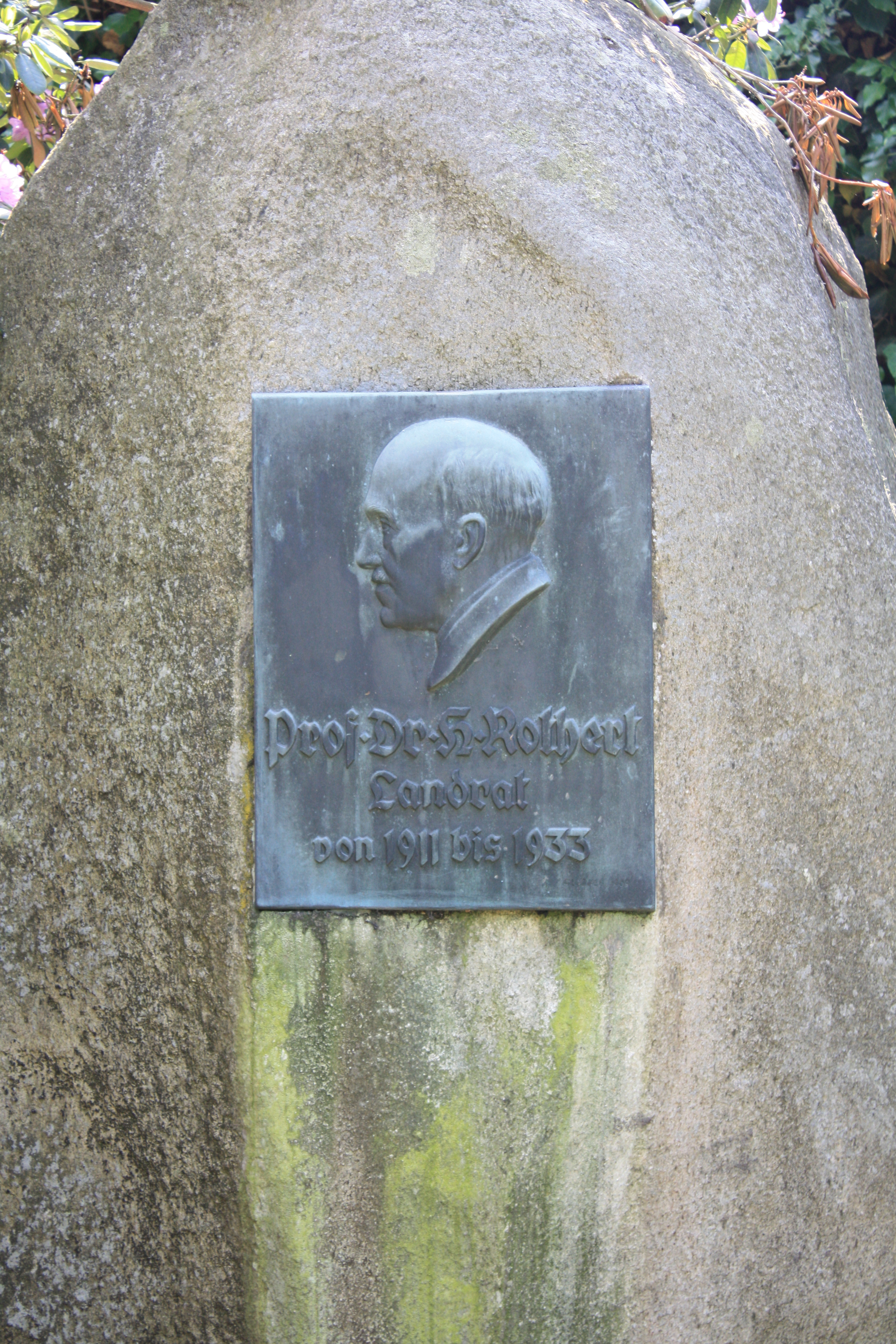 A geocoded location could be added to this image. Visit Commons:Geocoding for information on how to add coordinates. Add coordinates (new tool in testing phase) Gedenktafel des Landrats Prof. Dr. H. Rolhert von 1911 bis 1933 am Kloster Bersenbrück